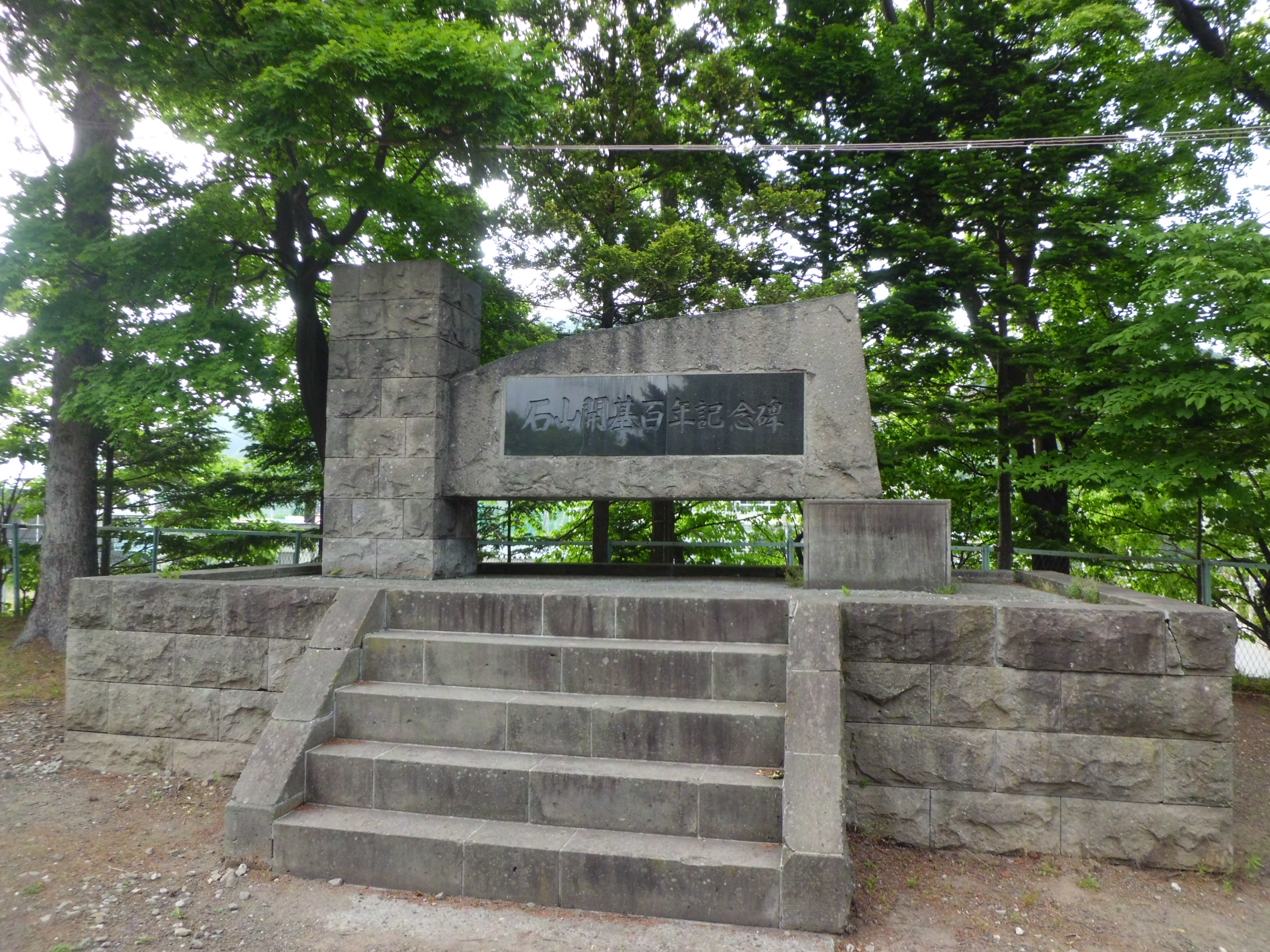 Ishiyama Centennial Monument